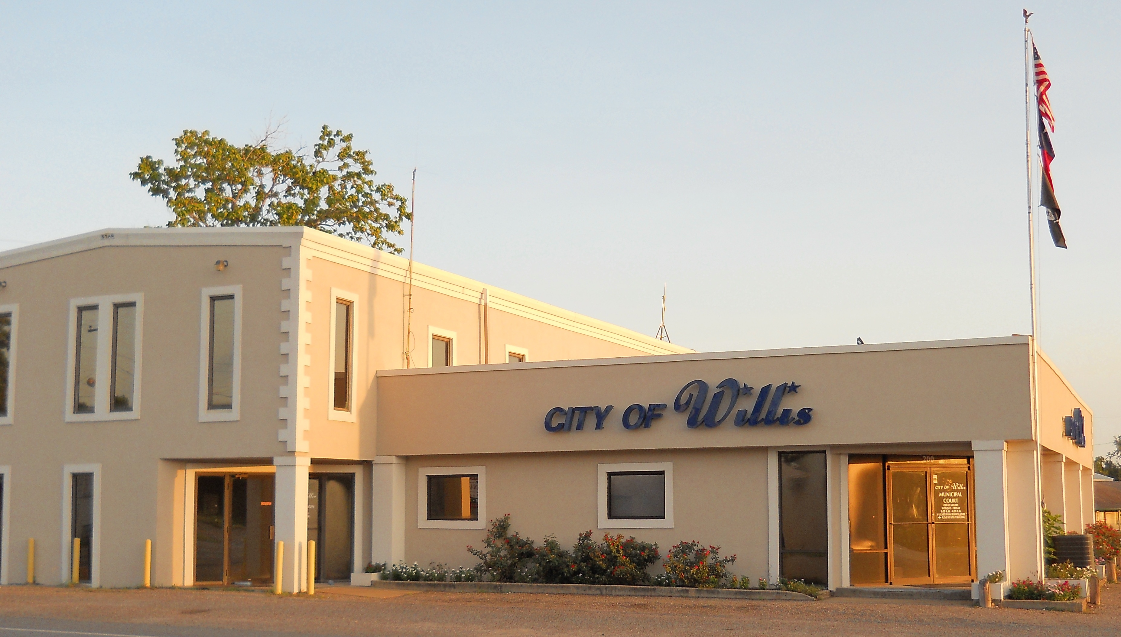 City Hall of Willis, Texas, South View 200 North Bell St. Willis, TX 77319